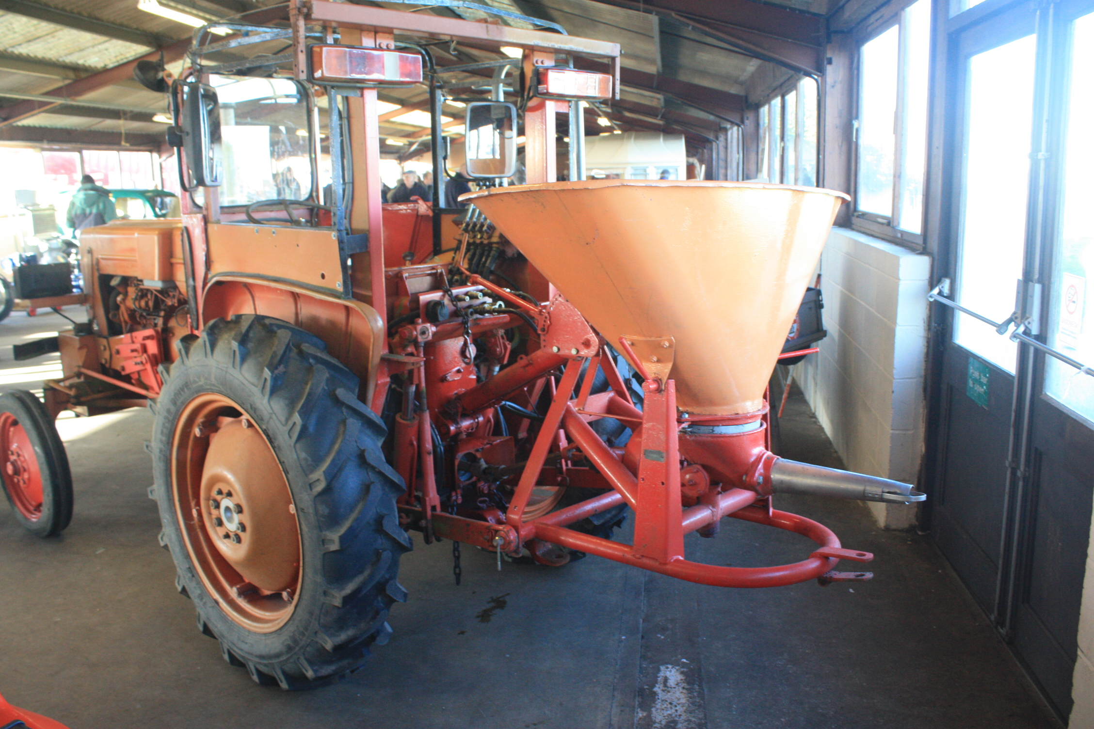 A Vicon spreader mounted on a Allis-Chalmers tractor with early cab at the LAMMA show (Lincolnshire Agricultural Machinery Manufacturers Association Show) in 2009, England